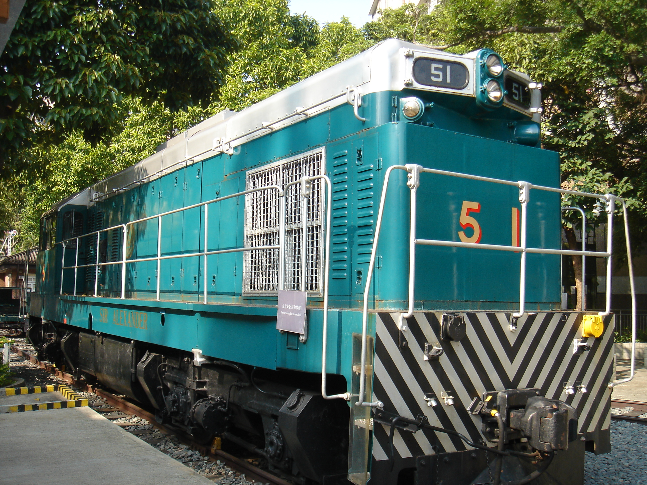 KCR Sir Alexander Locomotive, Hong Kong Railway Museum.